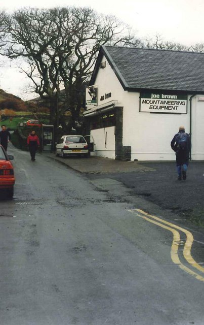 Joe Brown's Shop The climber Joe Brown has two climbing shops, this one is in Capel Curig.